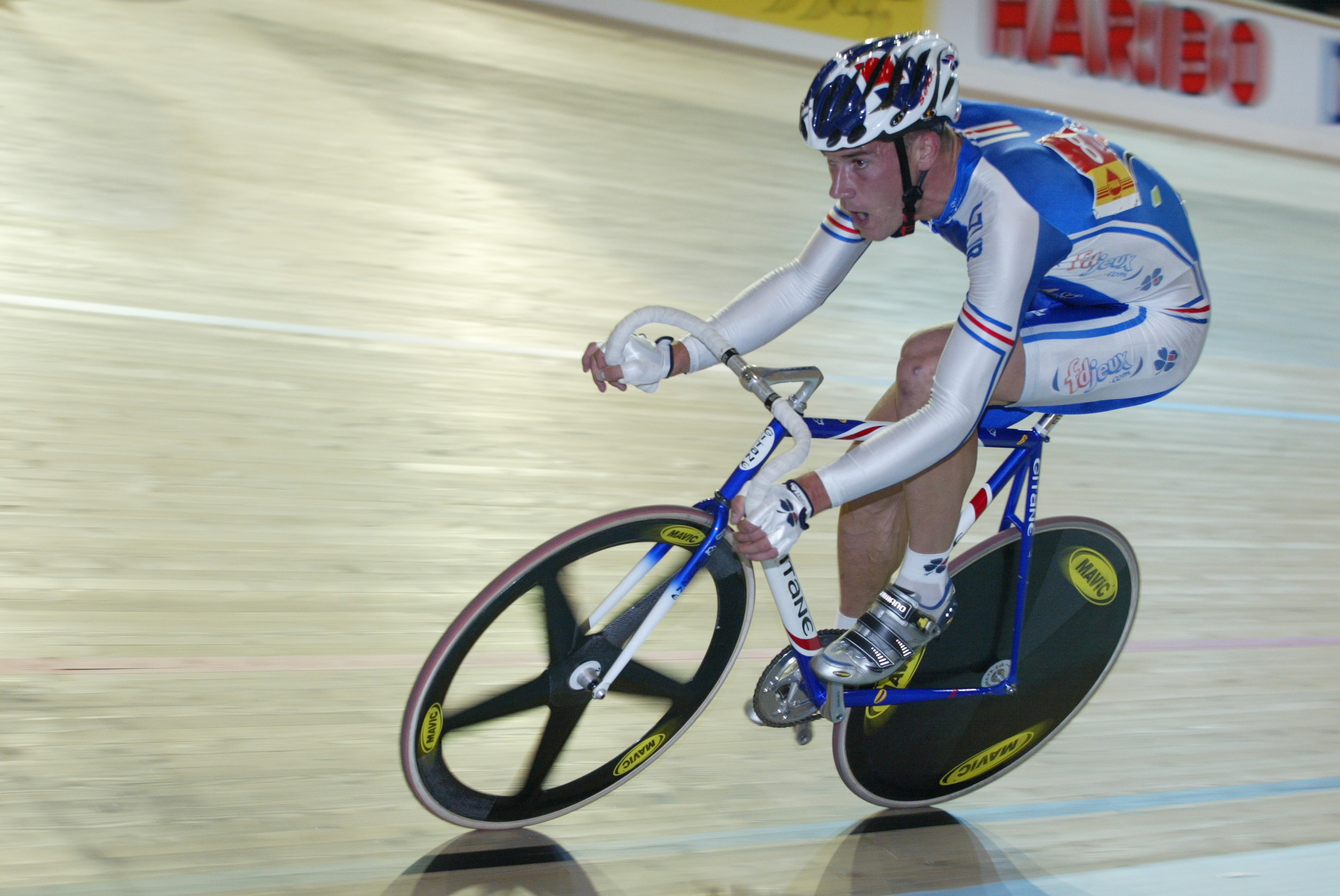 Franck Perque sur la piste aux Championnats du monde de 2002